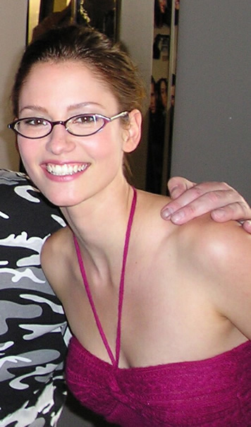 Photo of actress Chyler Leigh at public appearance in Los Angeles by Phoginator in early 2006.